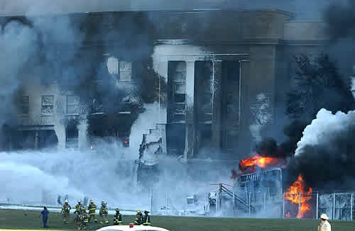 The Pentagon in flames a few minutes after a hijacked jetliner crashed into the building Sept. 11, 2001